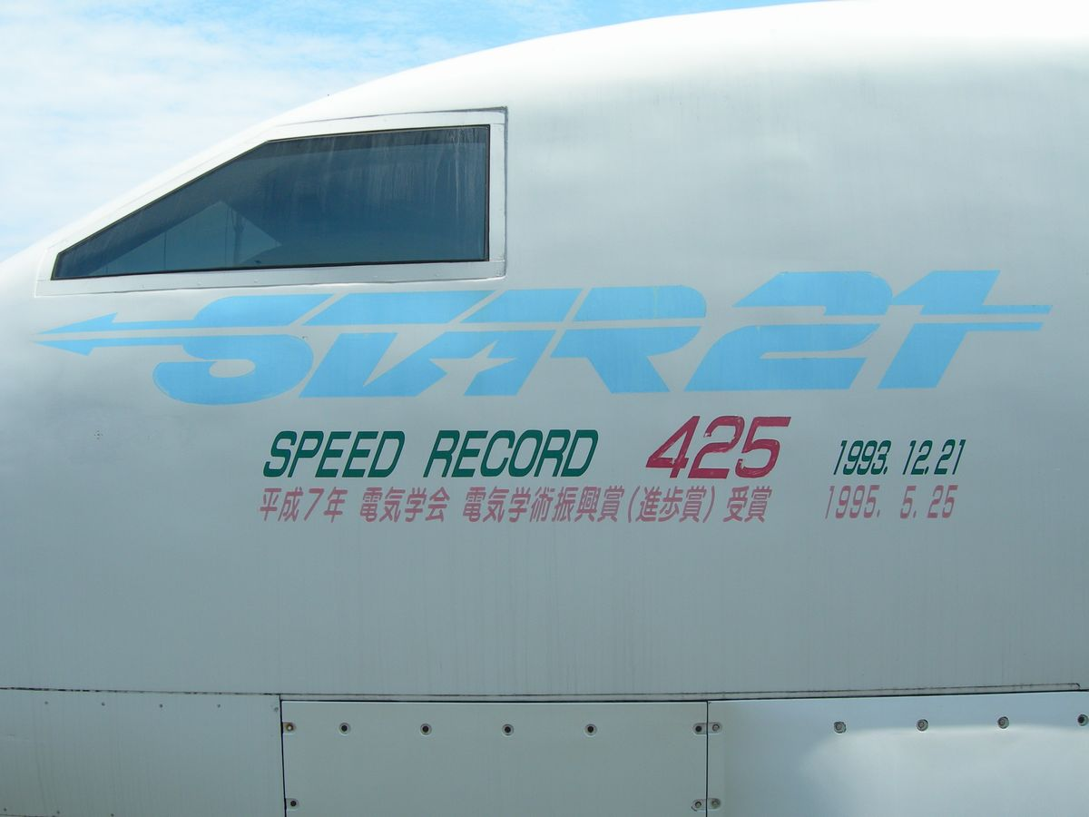 Speed record sticker on the side of "STAR21" experimental shinkansen train at Sendai Shinkansen Depot Open Day